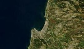 Satellite image of Israel in January 2003.